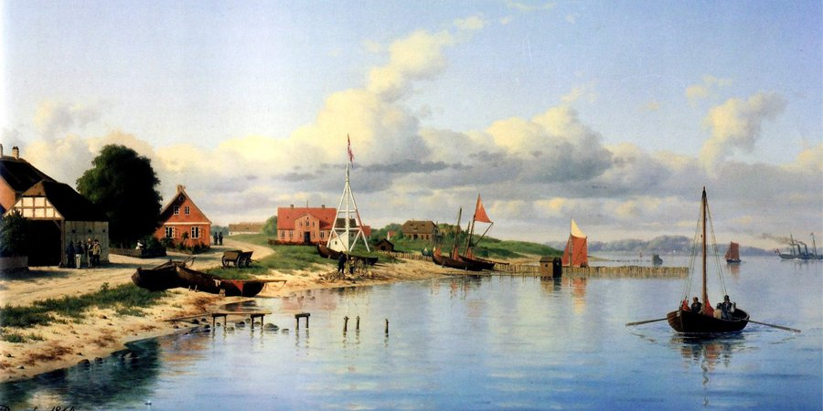 Painting of Vedbæk, Denmark